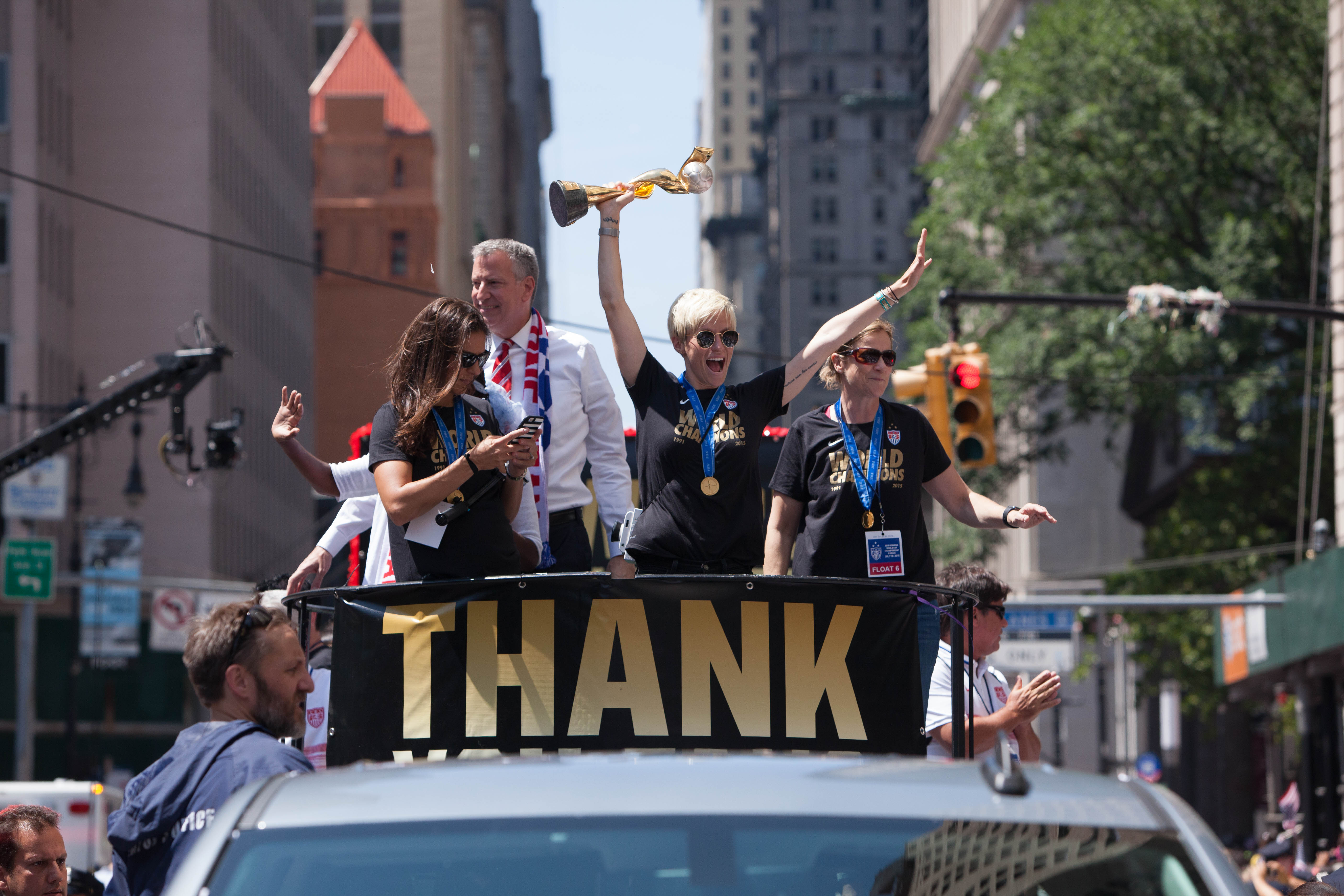 The United States Women's Soccer Team Ticker-Tape Parade New York City